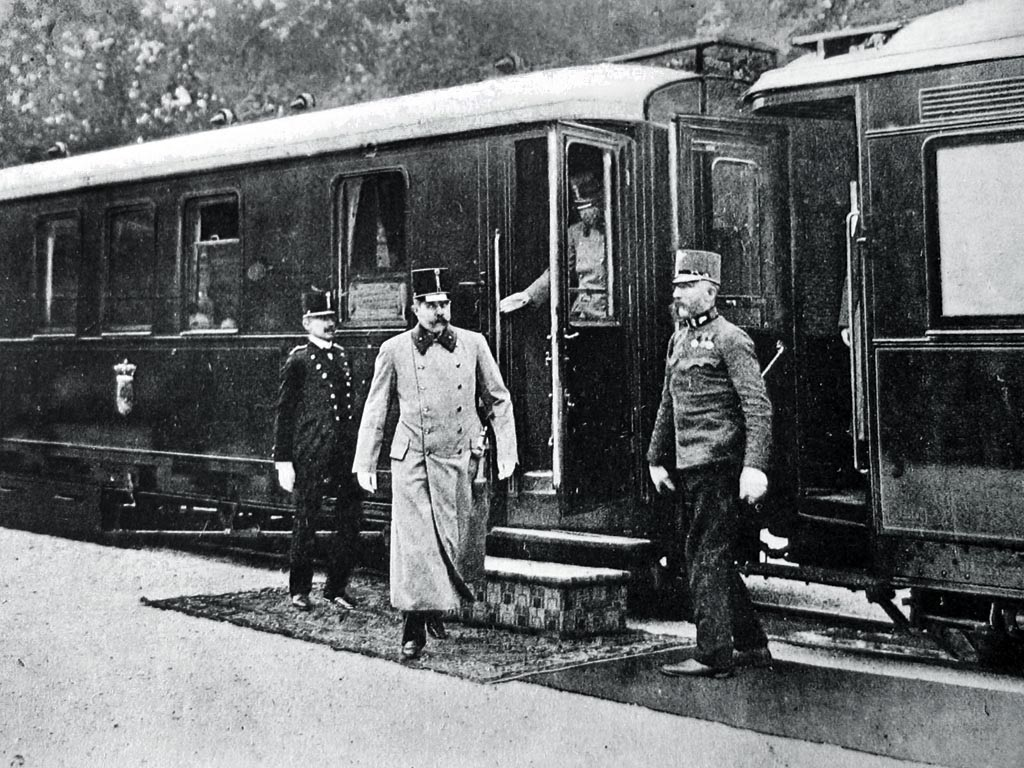 Franz Ferdinand arrived at Bad Ilidže station on June 25th 1914.